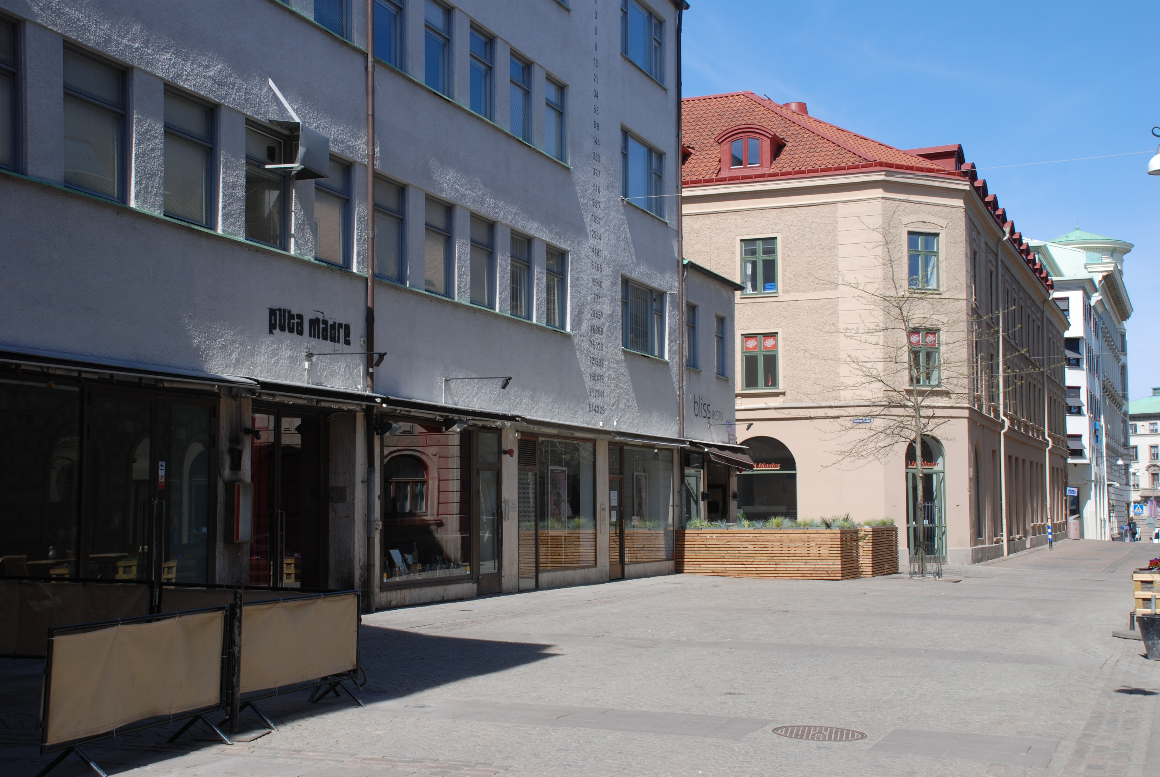 Magasinsgatan in Göteborg.